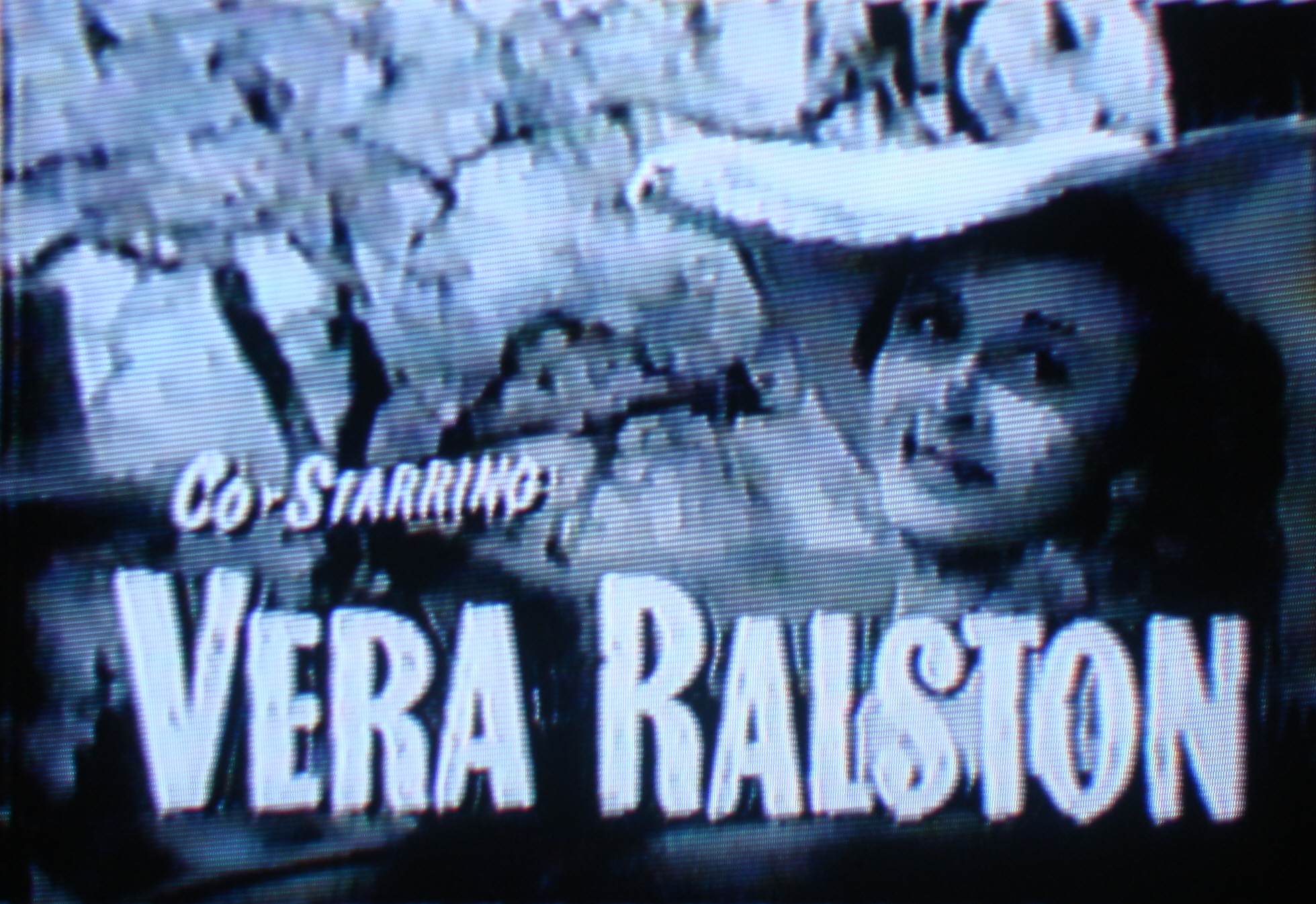 Cropped screenshot from the Trailer The Fighting Kentuckian (1949), Vera Ralston